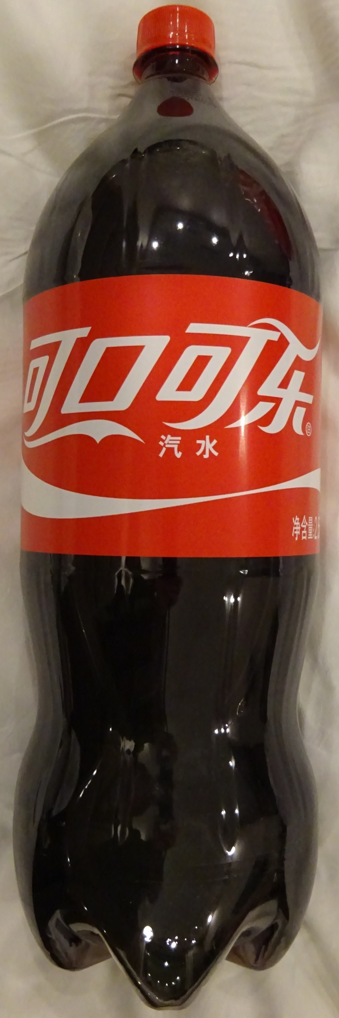 A 2.5 liter bottle of Coca-Cola, as sold in Mainland China.